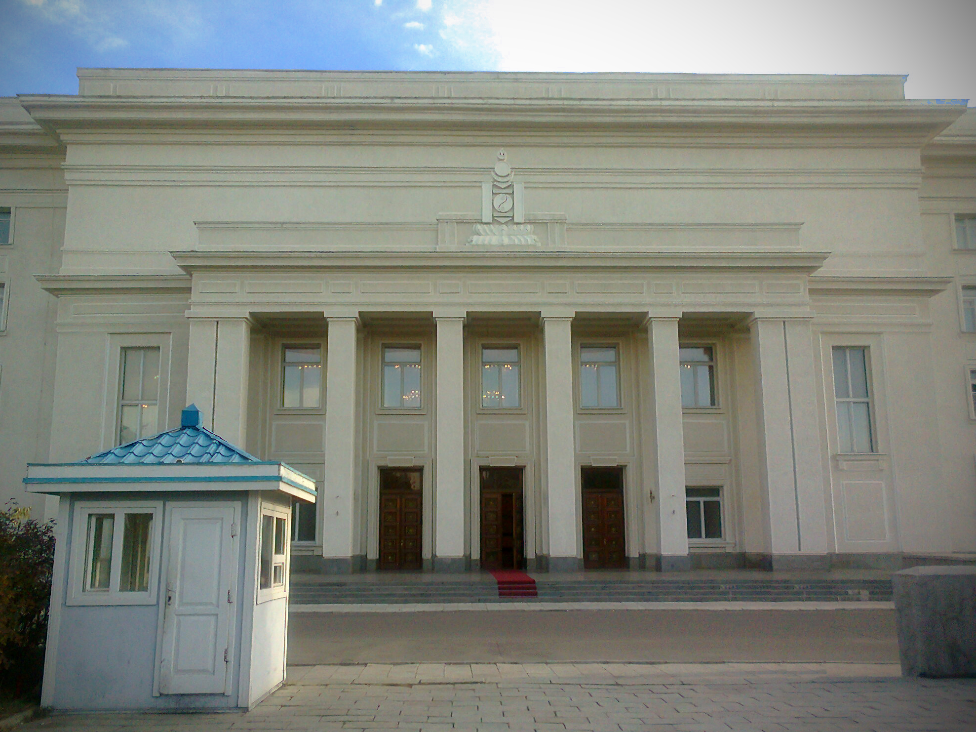 Government Palace (Mongolia) main entrance